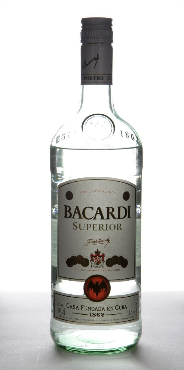 (Only cropped, no other editing.) (Only cropped, no other editing.)